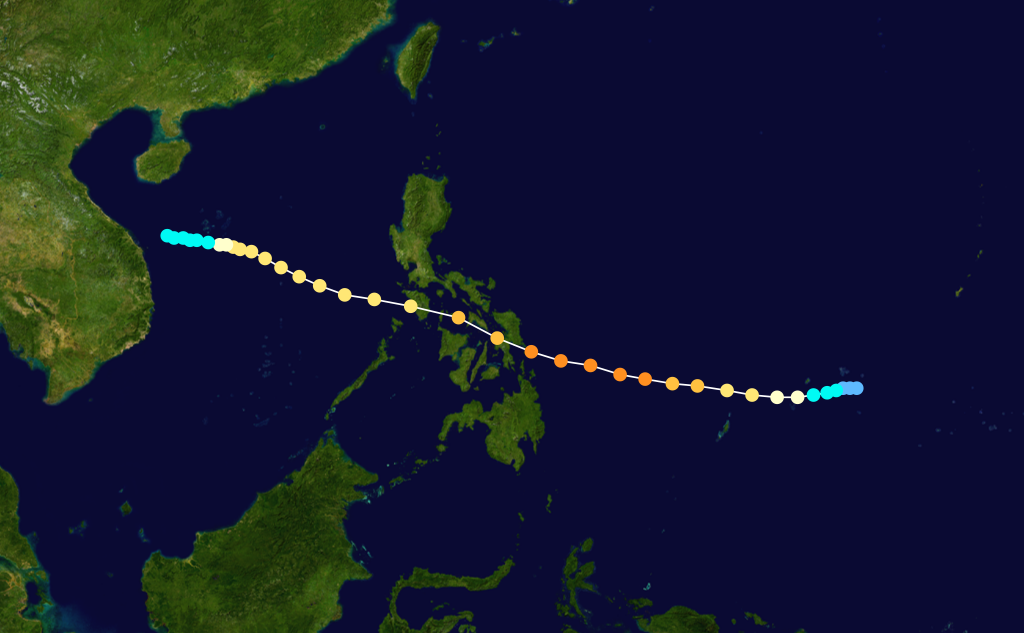 Typhoon Skip 1988 track. Uses the color scheme from the Saffir-Simpson Hurricane Scale.